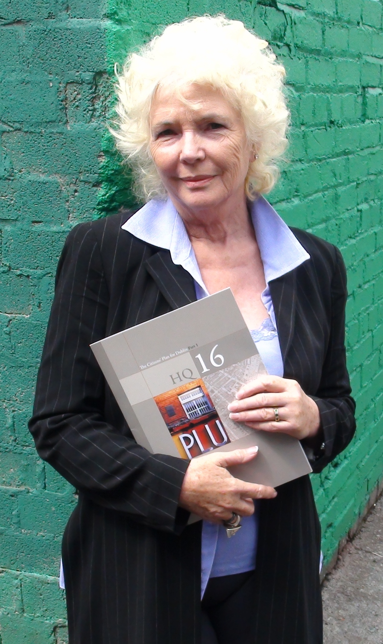 Fionnula Flanagan at a Sinn Féin meeting for the Save Moore Street campaign